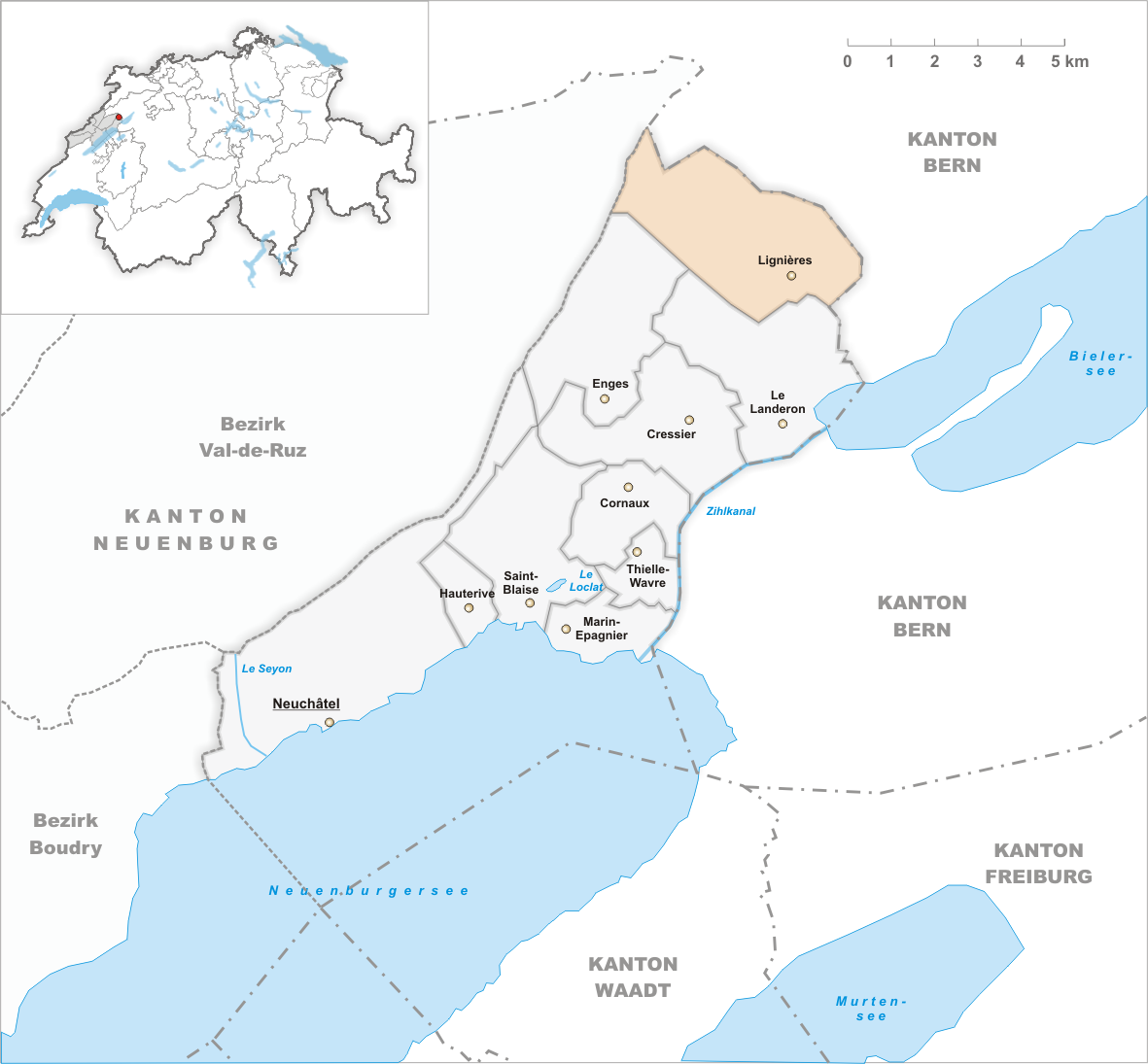 Municipality Lignières